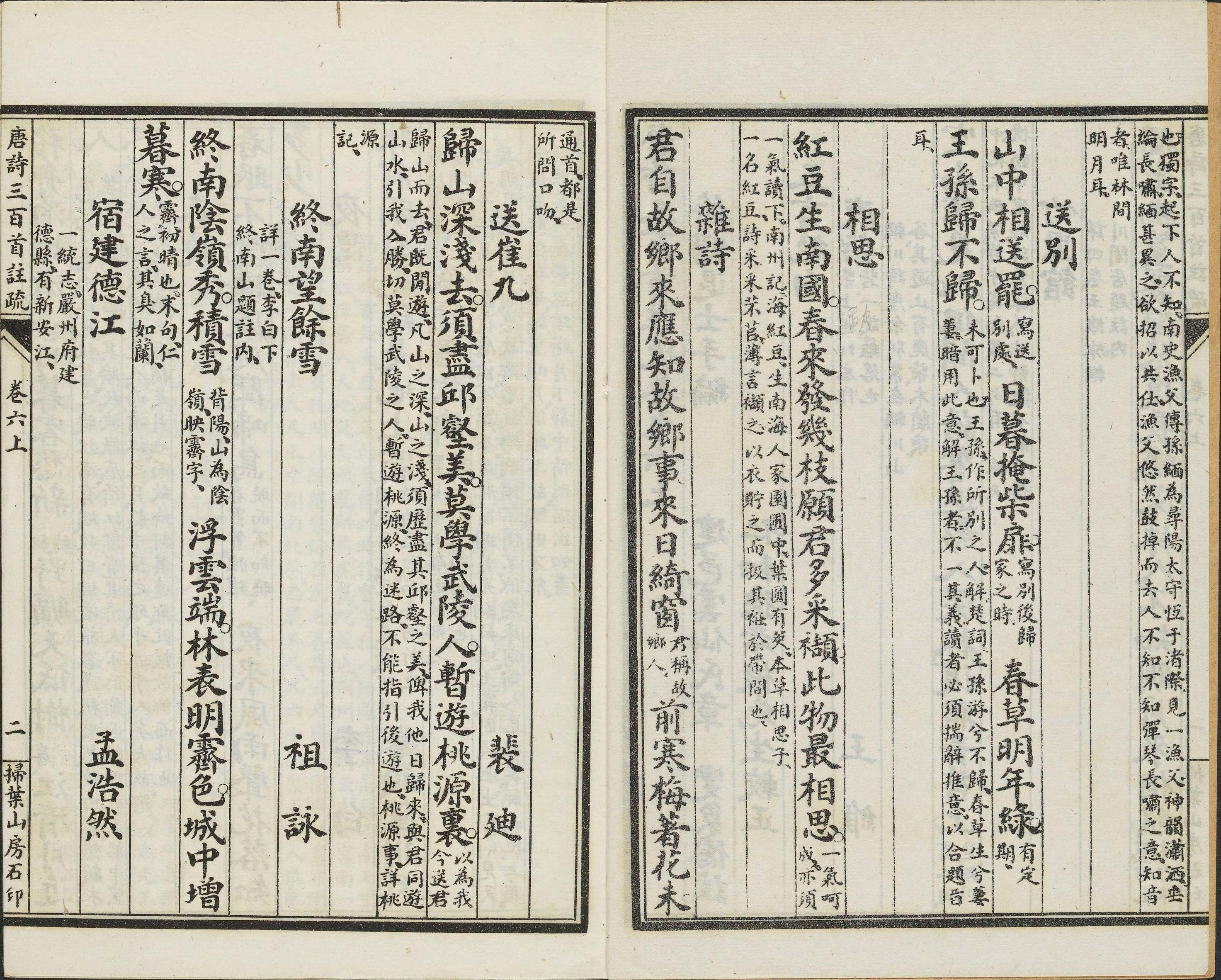 Three Hundred Tang Poems